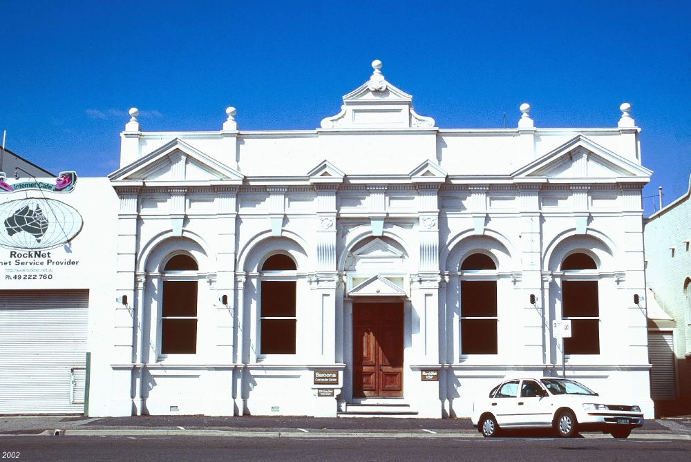 Goldsborough Mort Building (Former), Quay Street, Rockhampton (2002)